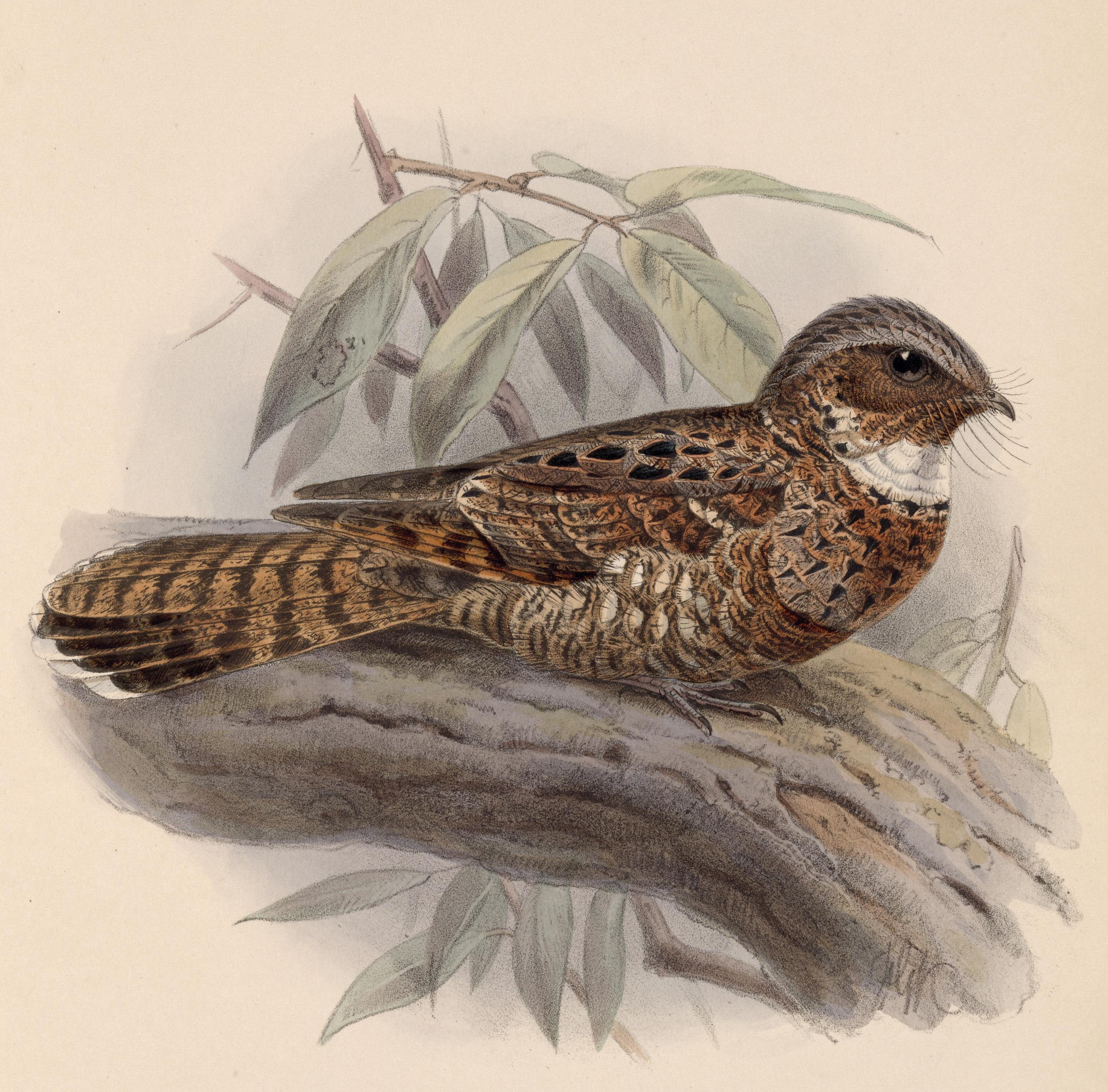 « Caprimulgus yucatanicus » = Nyctiphrynus yucatanicus (Yucatan Poorwill) - male